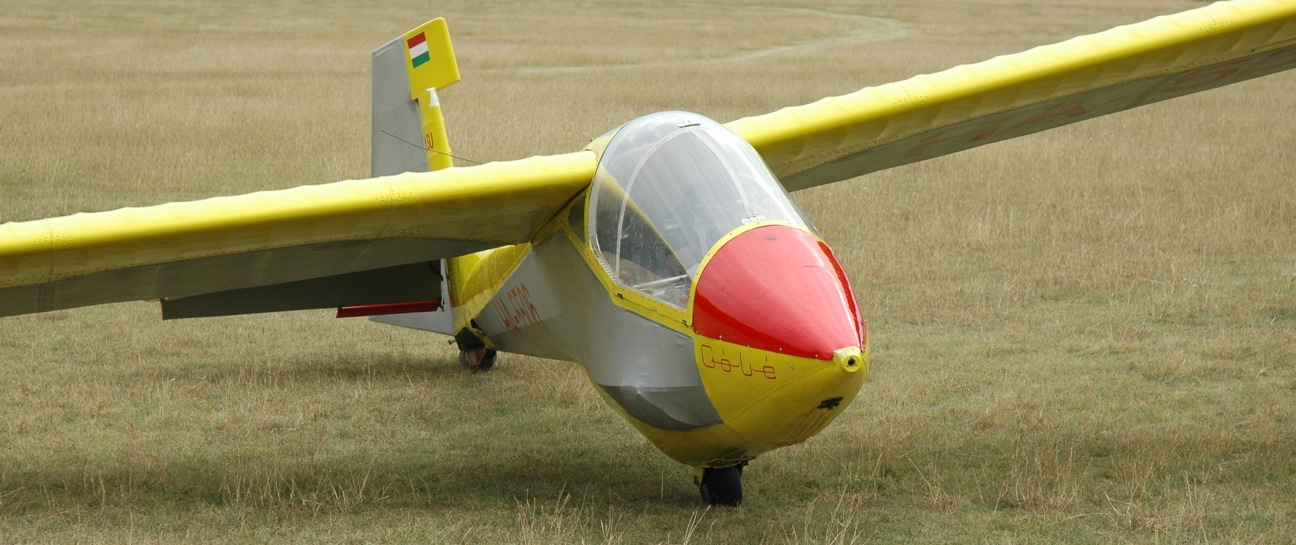 R-26SU Góbé'82 trainer glider (reg. HA-5506)